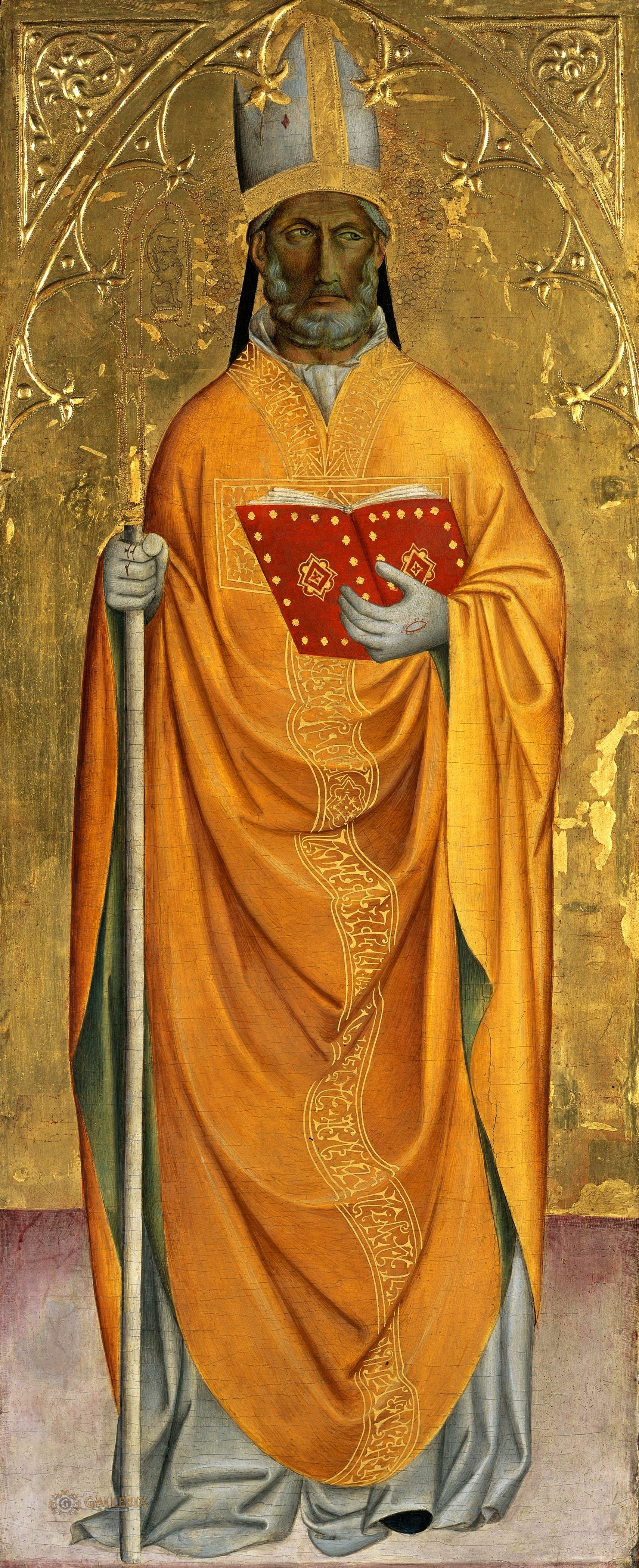 Cennino Cennini, Saint Augustine (?), ca. 1400, Berlin, Staatliche Museen